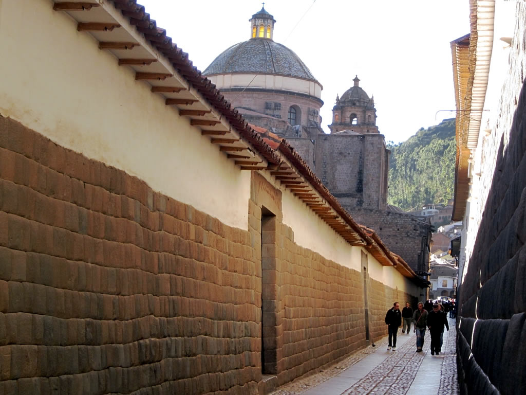 An Inca wall on Loreto Street in Cuzco, Peru, with the Jesuit church in the background.